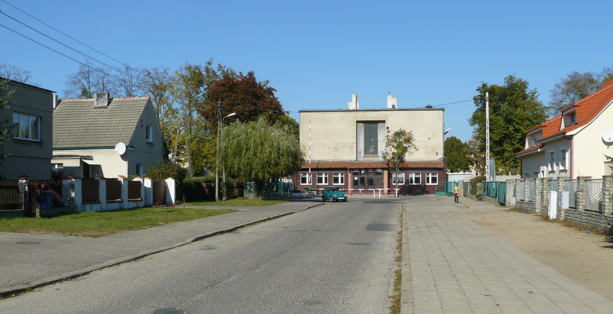 Lesnowolska Street, Poznan. Elementary school.